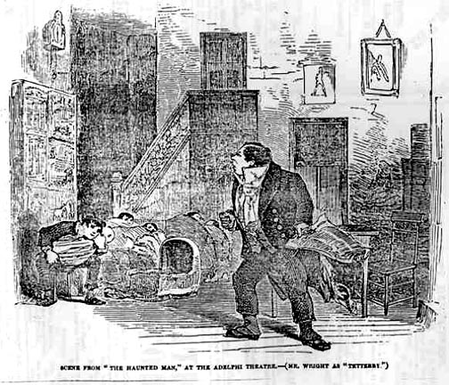 Scene from The Haunted Man at the Adelphi Theatre. (Mr. Wright as "Tetterby.") The Illustrated London News. Saturday, 30 December 1848, p. 603.